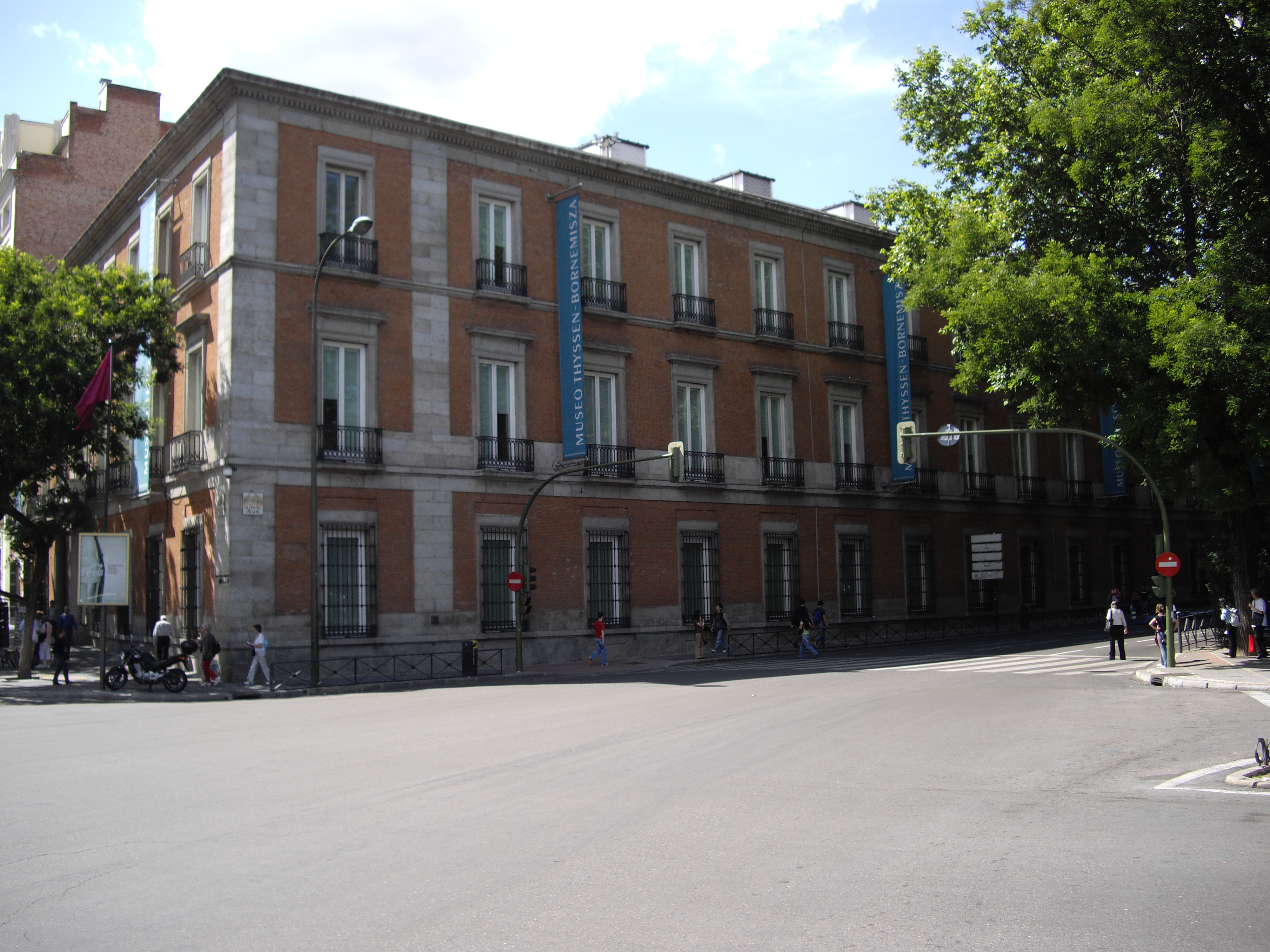 Thyssen-Bornemisza museum, Madrid, Spain